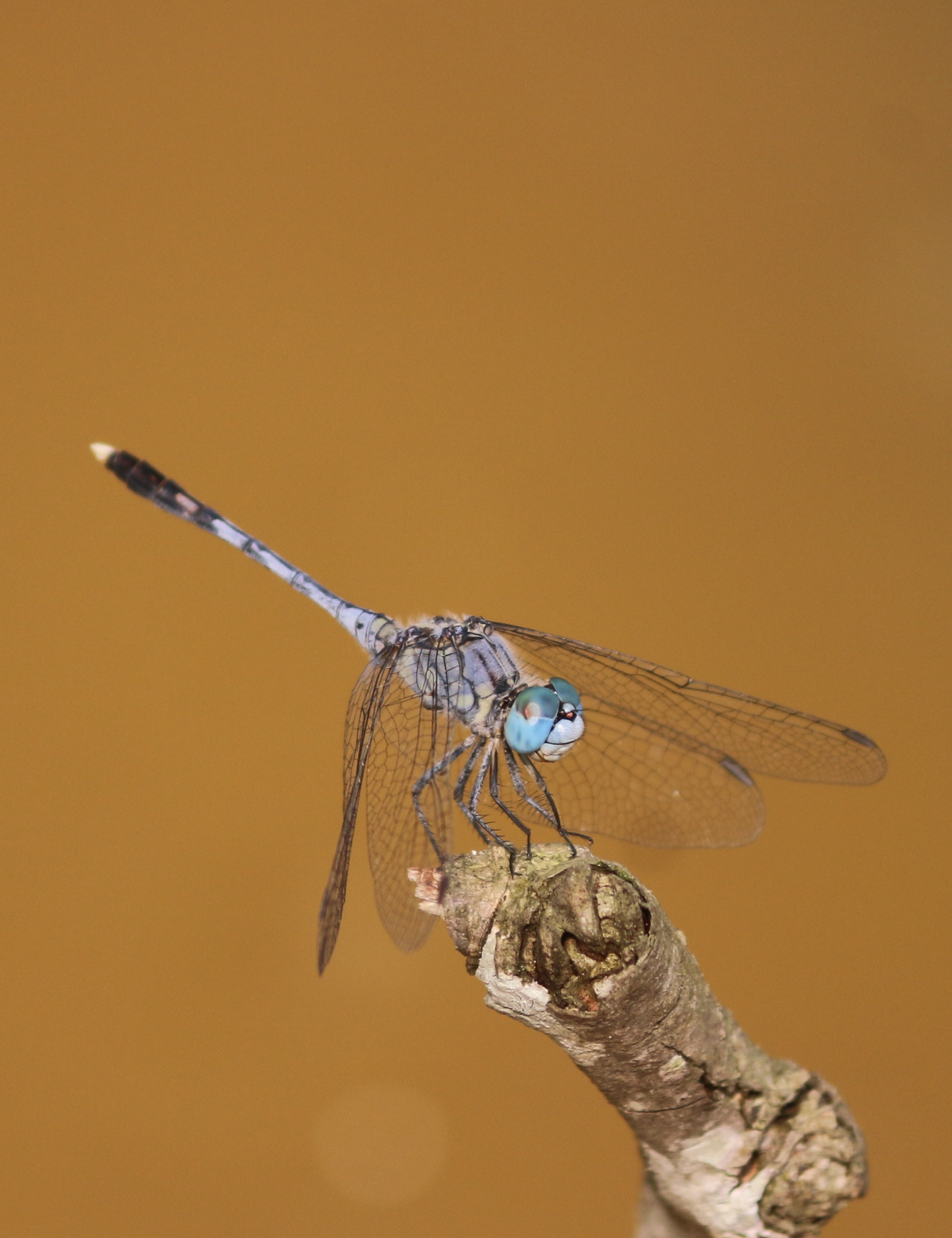 Diplacodes trivialis ,Ground Skimmer